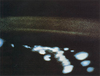 JOHN E. NAUGLE, Associate Administrator for Space Science and Applications, NASA, recalls: "This is the first photograph of the night airglow taken from above. It was taken by Gordon Cooper during his orbital flight of May 15, 1963, aboard Friendship 7, for an experiment conducted by Edward P. Ney, W. F. Hutch, and F. C. Gillett of the University of Minnesota. The photograph is a 2-minute exposure taken early in the satellite night as the spacecraft faced backward over the eastern coast of Australia. The flashes in the foreground are individual lightning discharges from four active regions in a storm. The successive flashes recede into the distance as the spacecraft moves away from the storm. The airglow layer, very much smeared by spacecraft motion, is the greenish band which begins about an inch in the photo above the horizon as delineated by the lightning flashes in the distance. This and other photographs show an airglow layer 24 kilometers thick and 77 to 110 kilometers above the horizon."